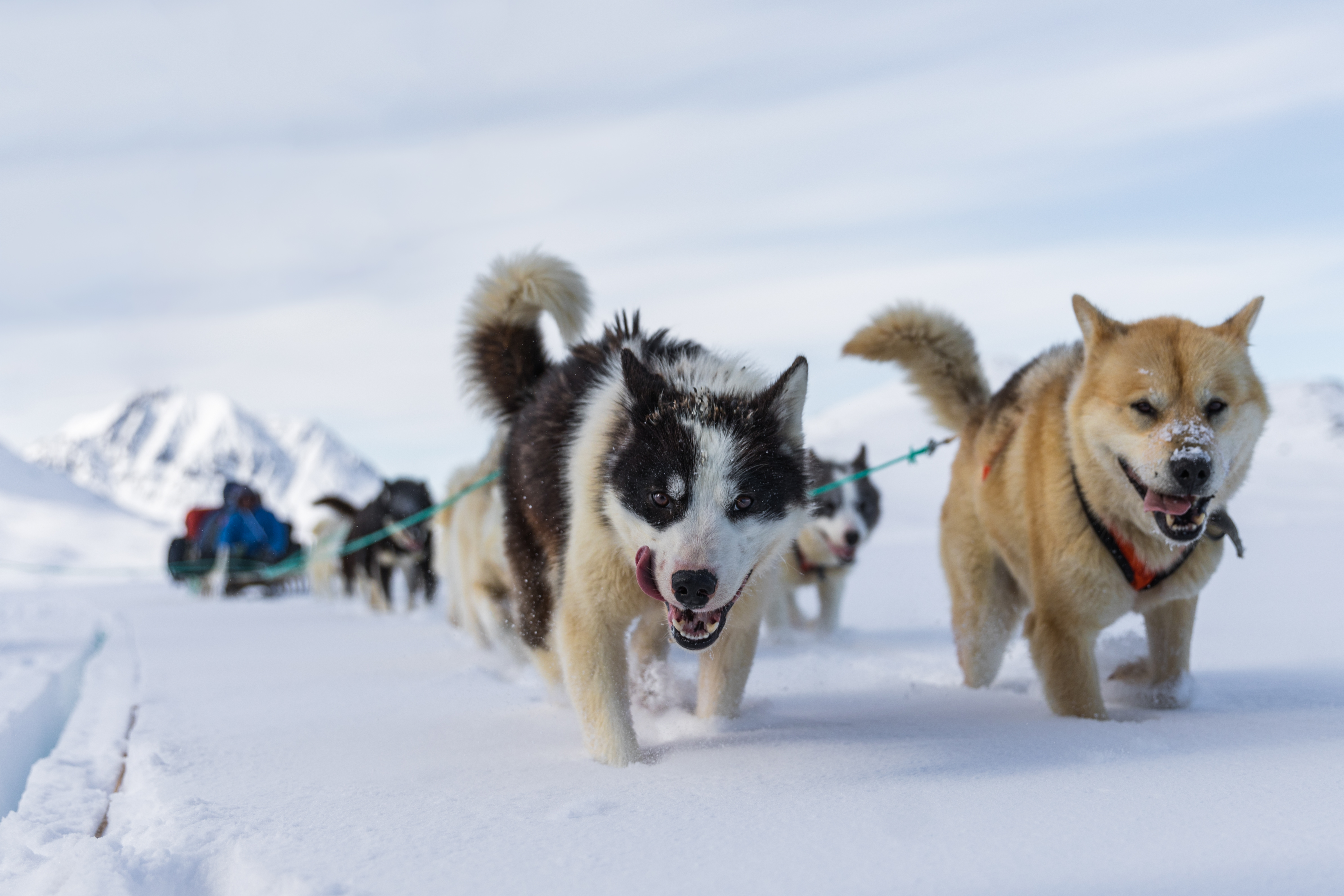 East Greenland Dog Sled Expedition Travelling with Inuit hunters over the frozen fjords of East Greenland.